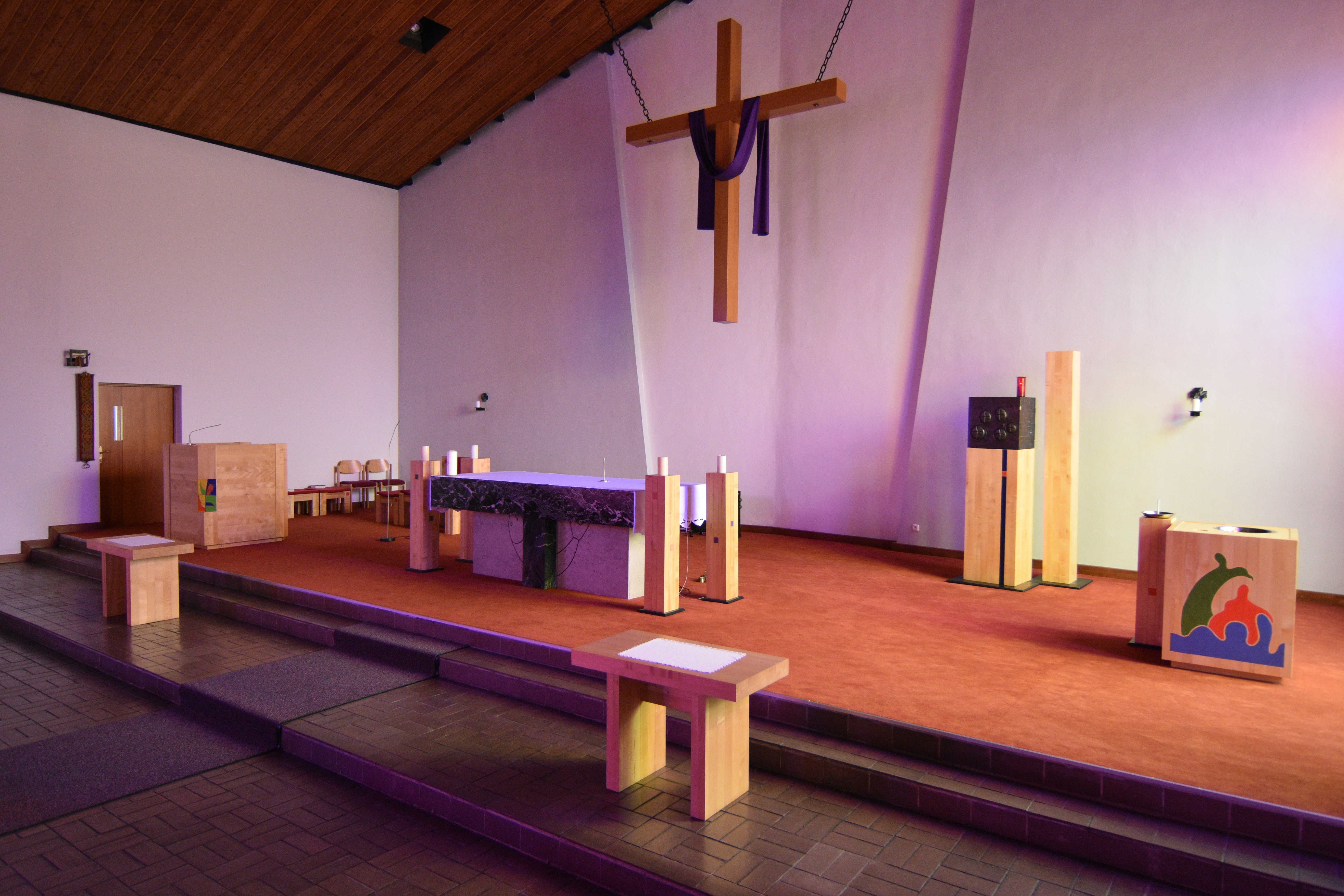 Holy Name of Mary Church (Neutal) - Interior